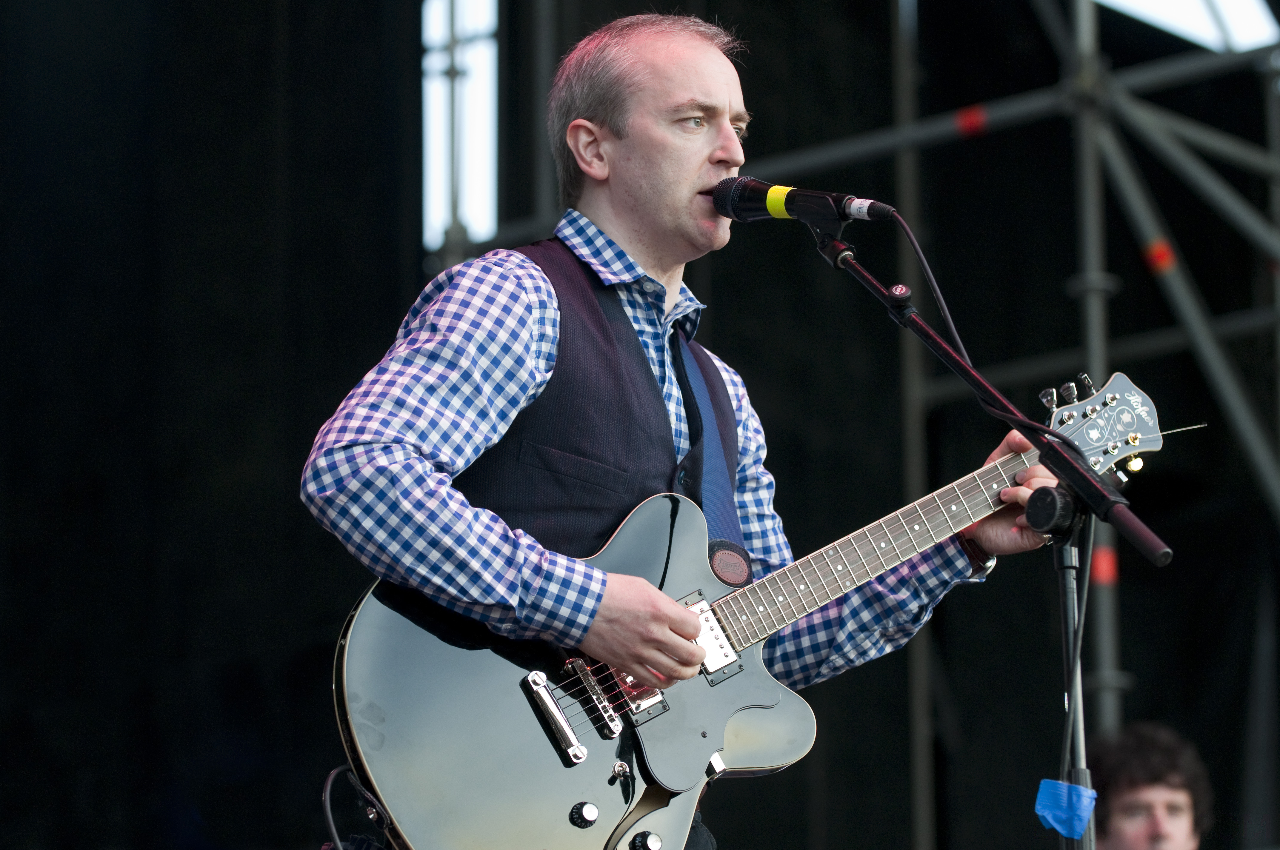 The Vaselines